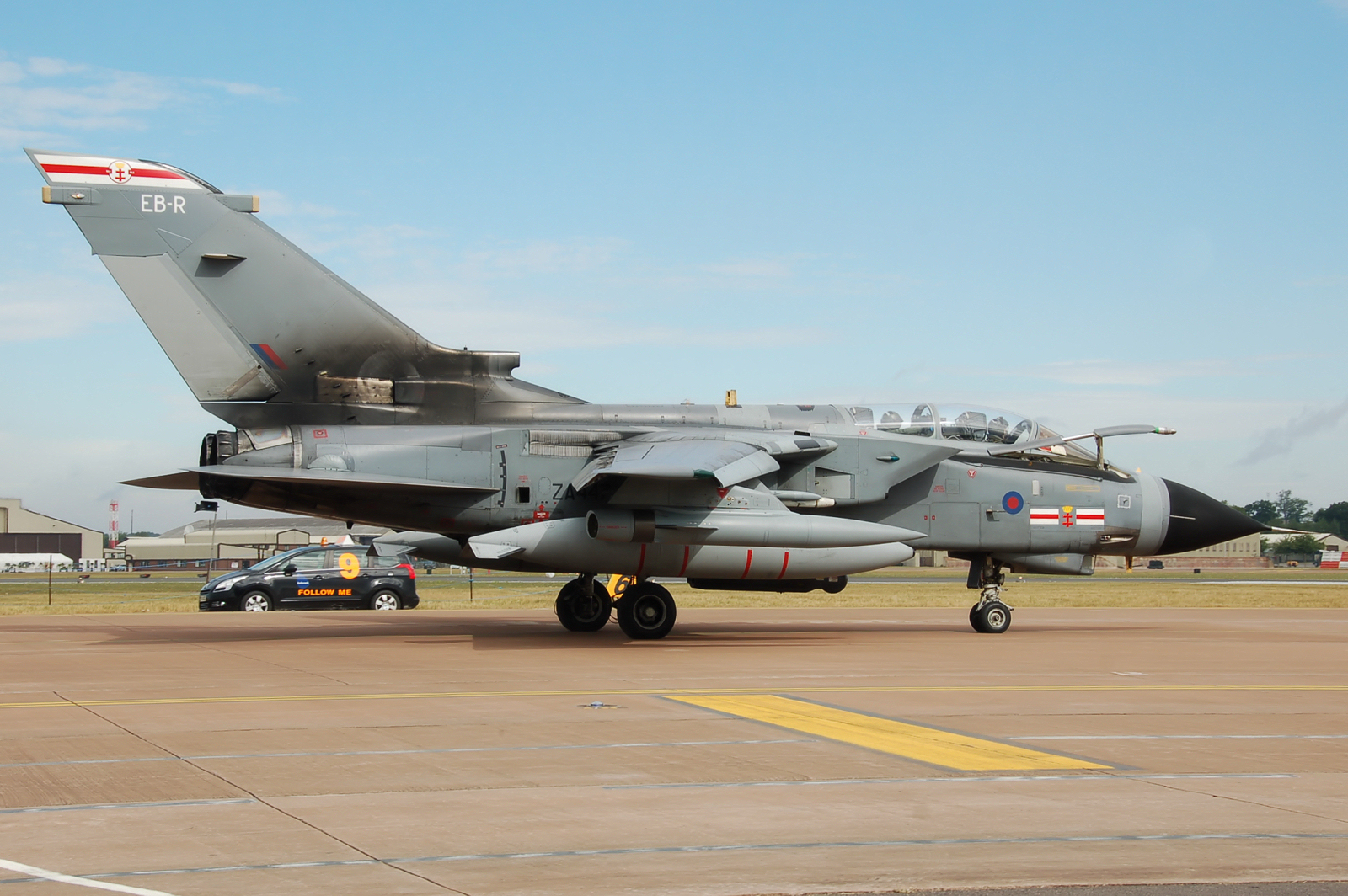 RAF Panavia Tornado GR4 of 41 Squadron (code ZA447) at the 2010 Royal International Air Tattoo, RAF Fairford, Gloucestershire, England. To commemorate the 70th anniversary of the Battle of Britain in 1940, the special code EB-R at the top of the fin commemorates a 41 Squadron pilot in World War II. The code was on P9428 Spitfire Mk 1a flown by Squadron Leader Hilary Hood, the Squadron Commanding Officer.